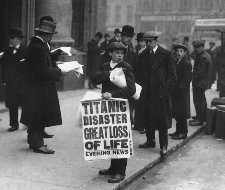 The famous photo of the newsboy with the headlines reporting the sinking of the Titanic